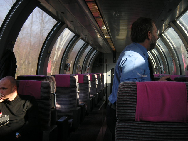 Train Features: The modern First Class Swiss Panoramic coaches are air-conditioned and offer large panoramic windows. These coaches run on InterCity and EuroCity Trains, which are high quality international trains with dining cars. Train Routes: Switzerland Germany Chur - Zurich - Basel - Mannheim - Dortmund - Hamburg/Kiel Hamburg/Kiel - Dortmund - Mannheim - Basel - Zurich - Chur Switzerland Austria Vienna - Salzburg - Innsbruck - Zurich Zurich - Innsbruck - Salzburg - Vienna Basel - Zurich - Buchs SG - Innsbruck - Salzburg - Vienna Salzburg - Innsbruck - Buchs SG - Zurich Zurich - Buchs SG - Innsbruck - Salzburg